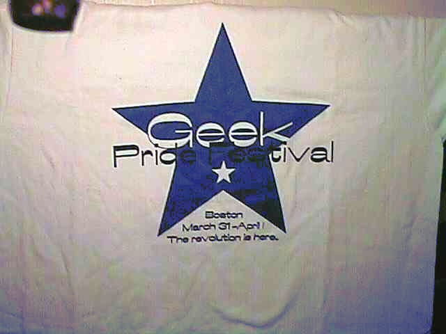 Photo of my Geek Pride Festival T-shirt, as taken by me, and posted to , color corrected in Gimp to make up for the bad auto-leveling of my old Casio QV-100.